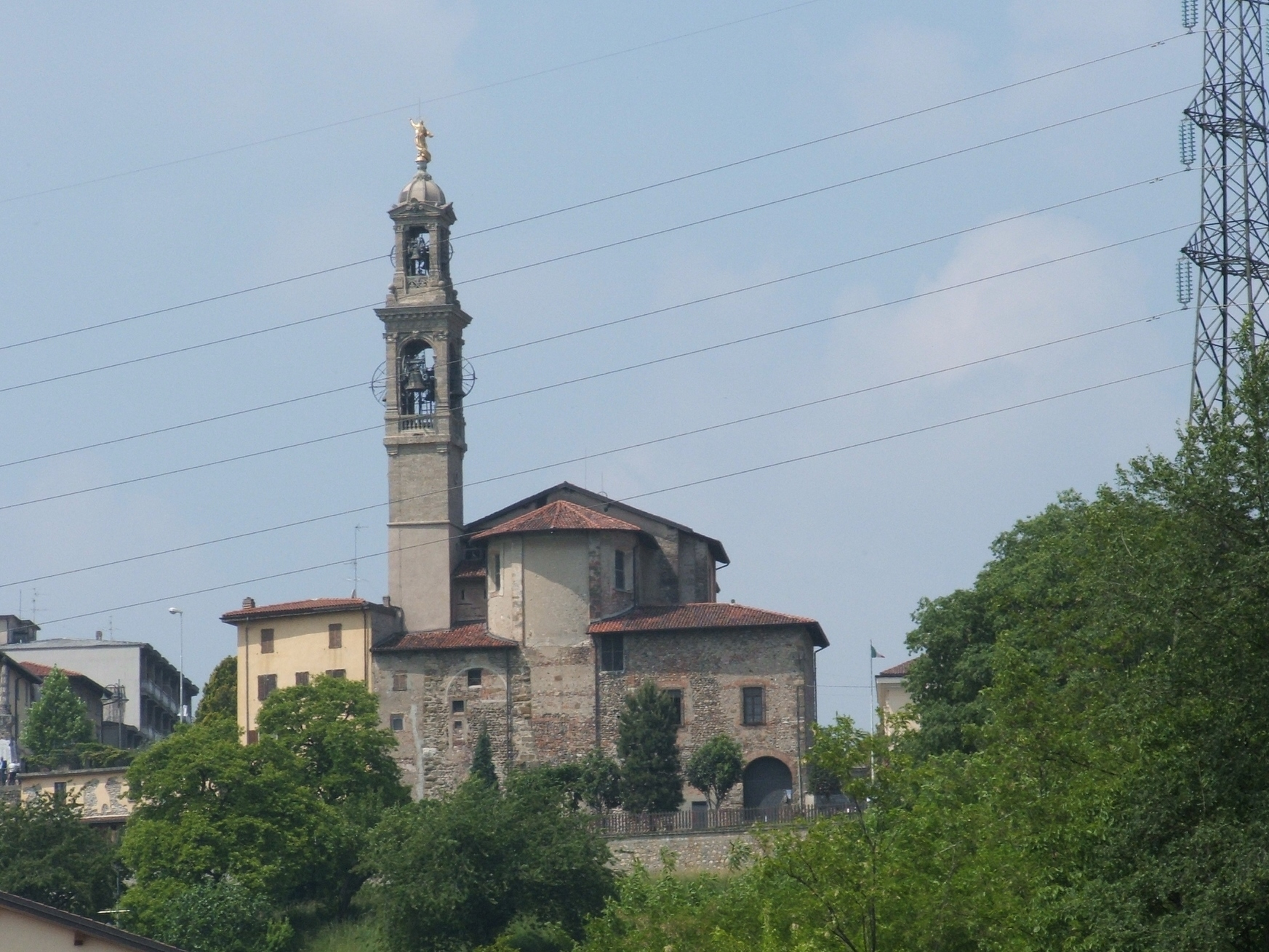 Brembate di Sopra, Bergamo, Italy - Parish church of the Assumption (back)